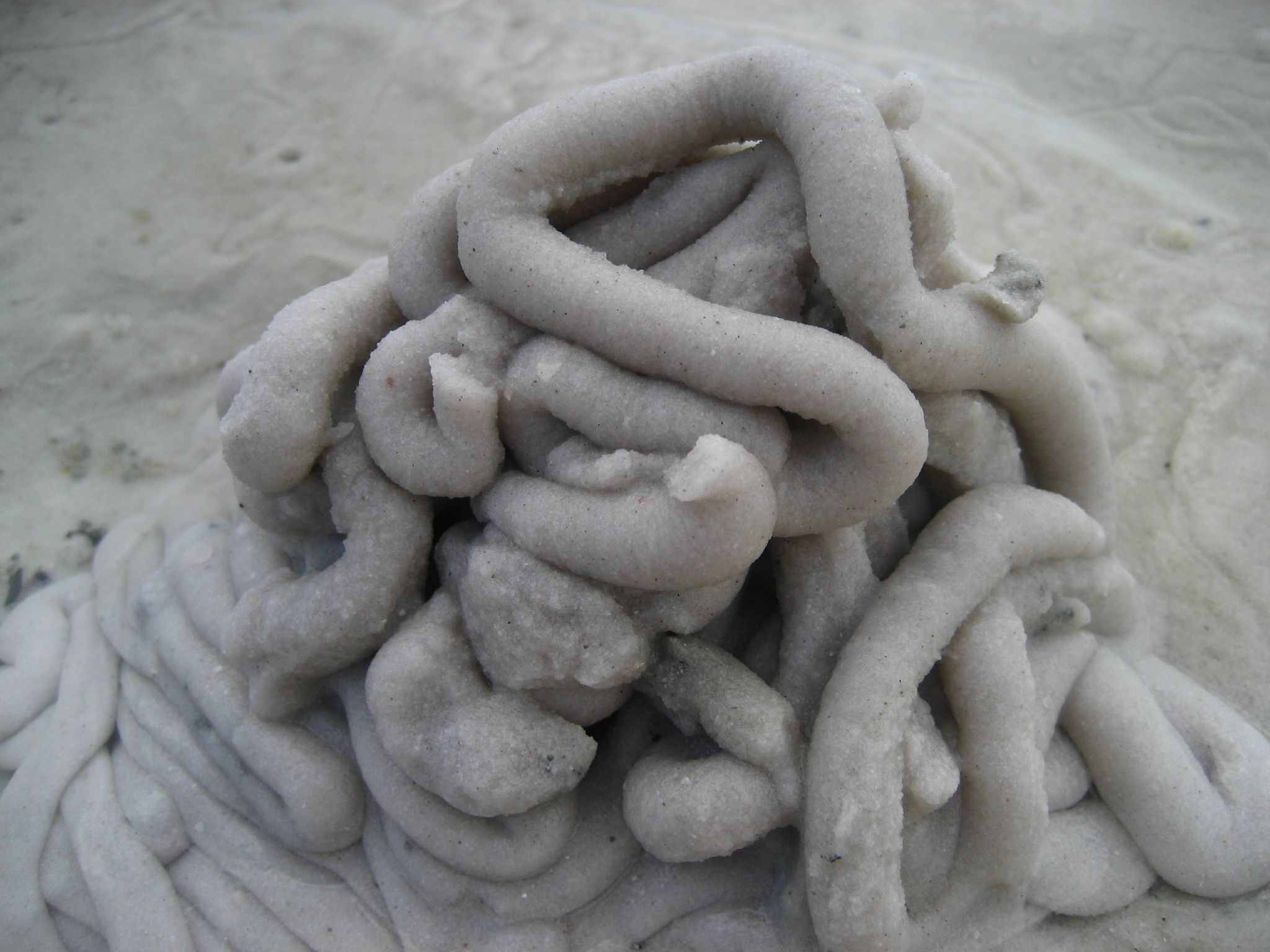 Lug Worm at Whitehaven Beach, Queensland, Australia